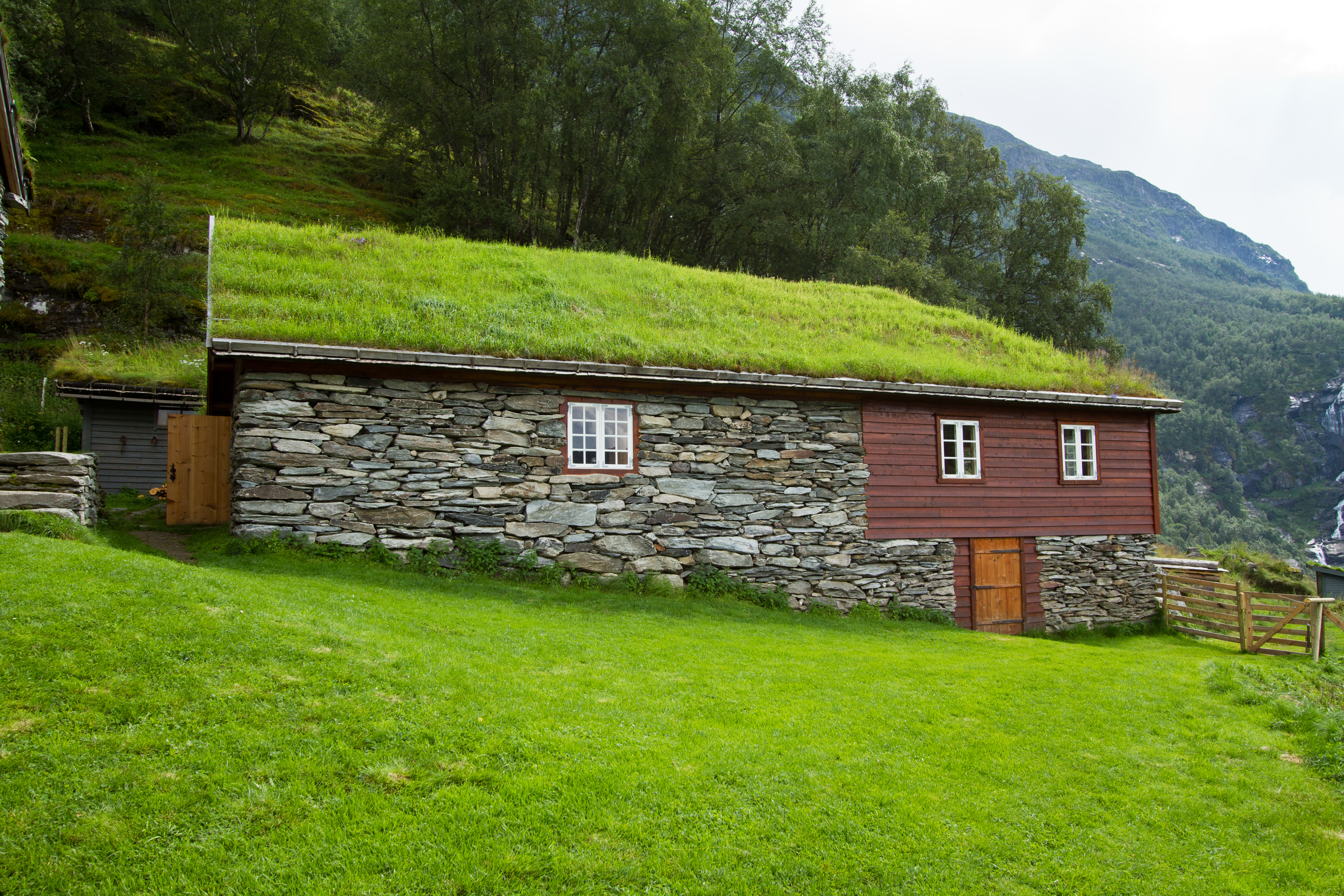 Picture of the houses on FuglestegNorsk bokmål: Bilde av husa på Fuglesteg